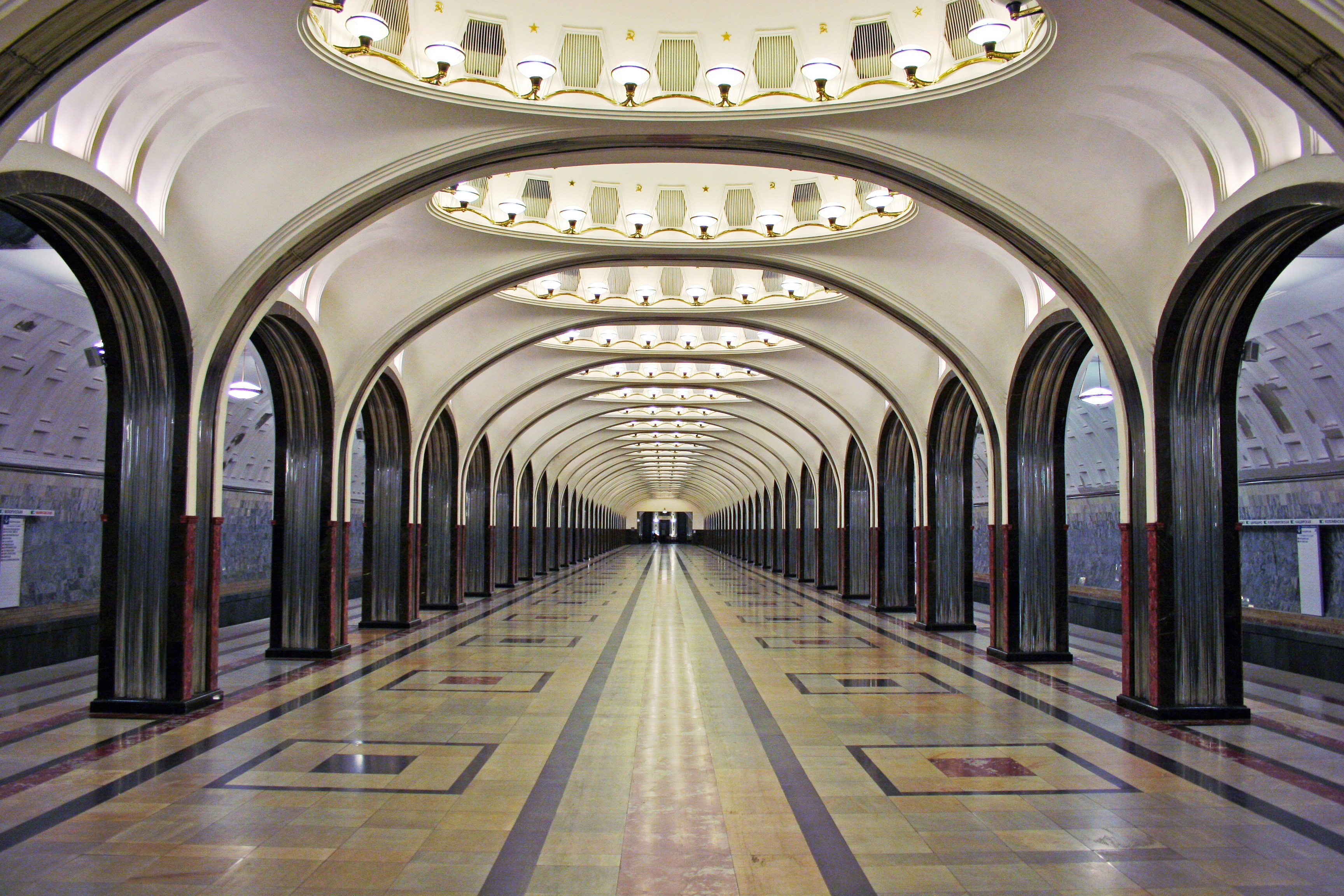 Mayakovskaya station of Moscow Metro, after 2010 renewal.